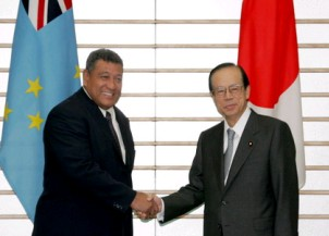 Apisai Ielemia, Prime Minister, met Yasuo Fukuda, Prime Minister, at the Prime Minister's Official Residence in Chiyoda Ward, Tōkyō Metropolis on December 6, 2007.